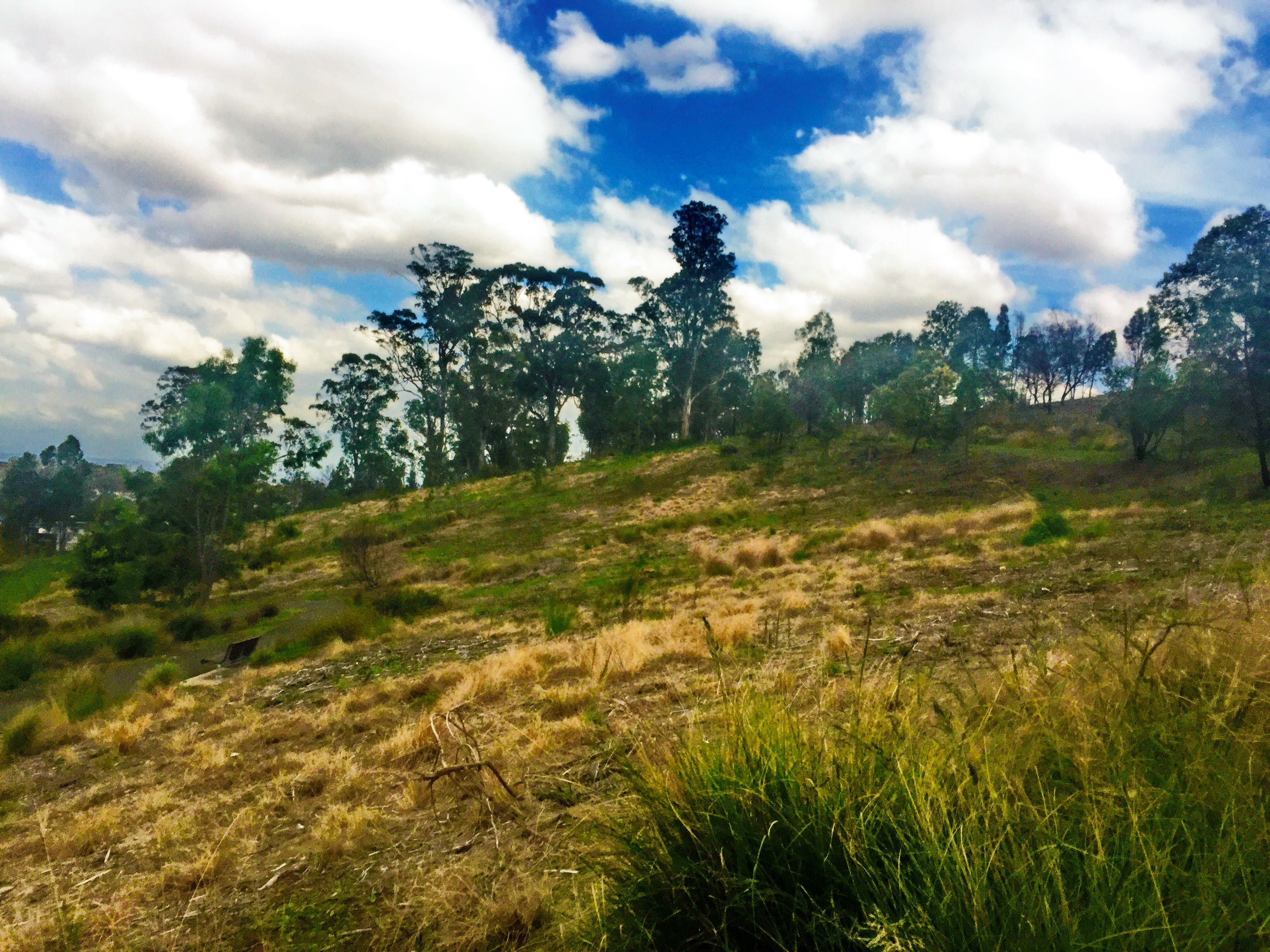 The slopes of Prospect Hill at Marrong Reserve.